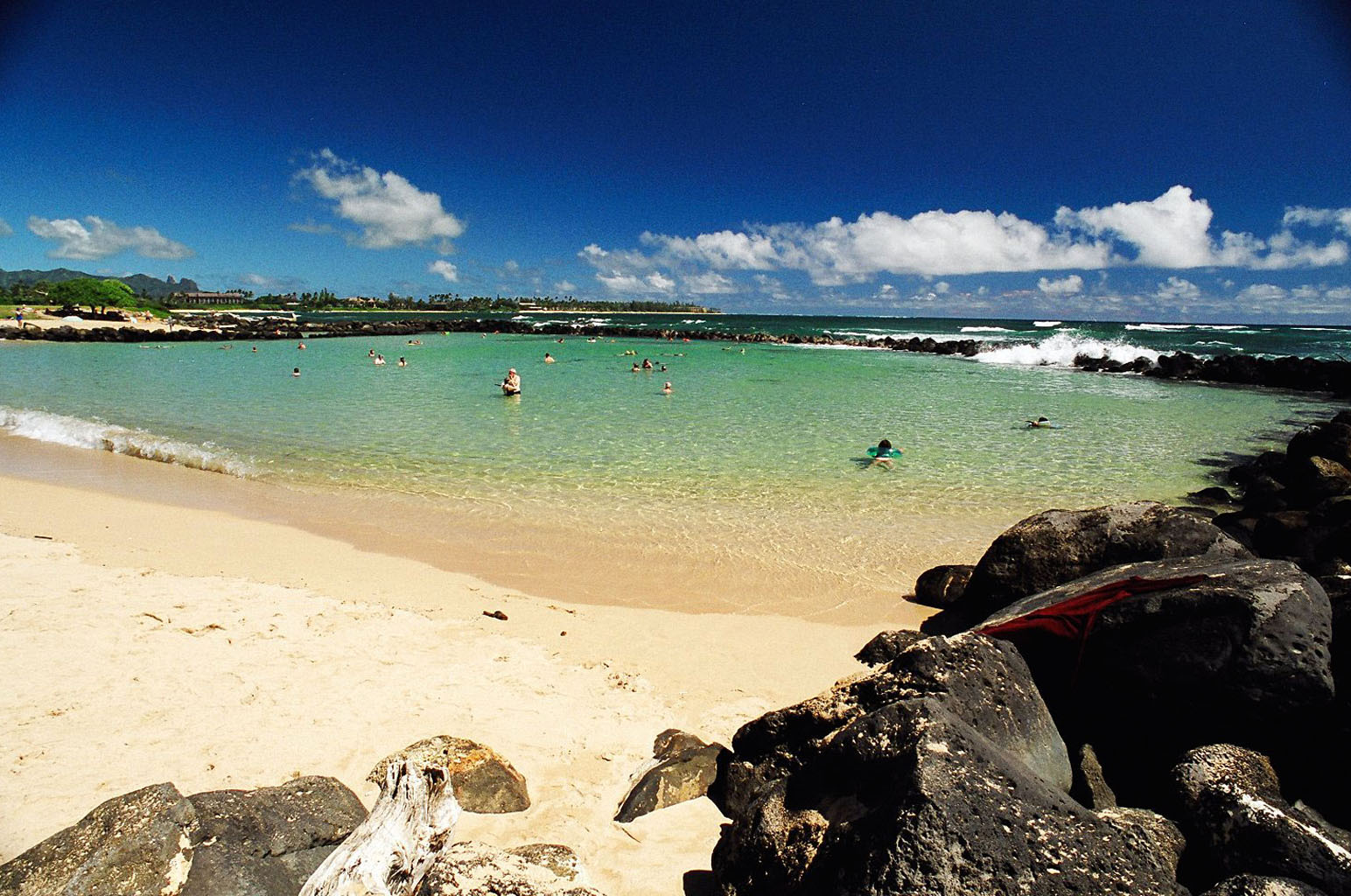 Lydgate Beach located along the Royal Coconut Coast on the east side of Kauai, Hawaii, 2012.